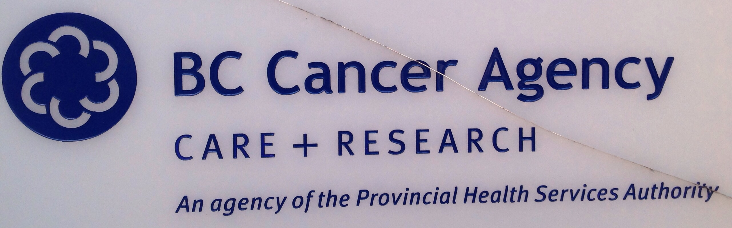 Photo of BC Cancer Agency logo on facility signage